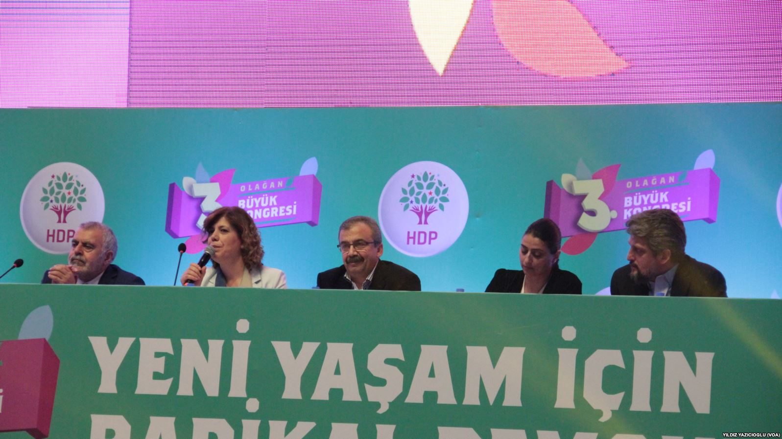 Peoples' Democratic Party 3rd Ordinary Congress, 11 February 2018